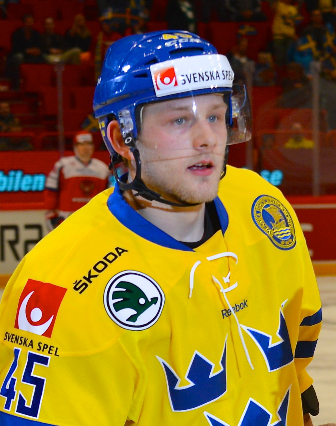 Oscar Möller during Oddset Hockey Games against Russia (2-0) at the Ericsson Globe in Stockholm on May 4th, 2014.